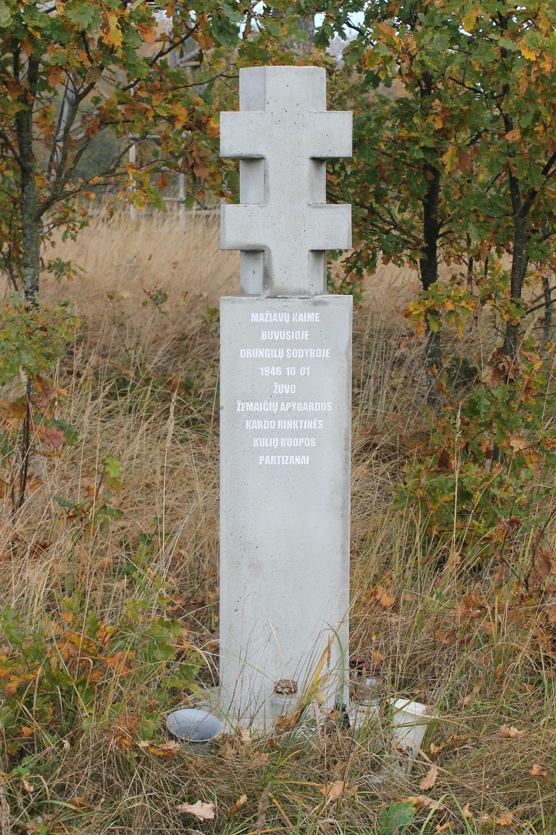 A commemorative sign for partisans in the village of Mažiavos, Plungė district municipality, Lithuania